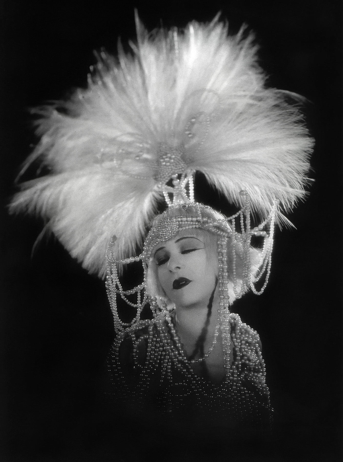 Alla Nazimova in a photo from the 1923 film Salome.